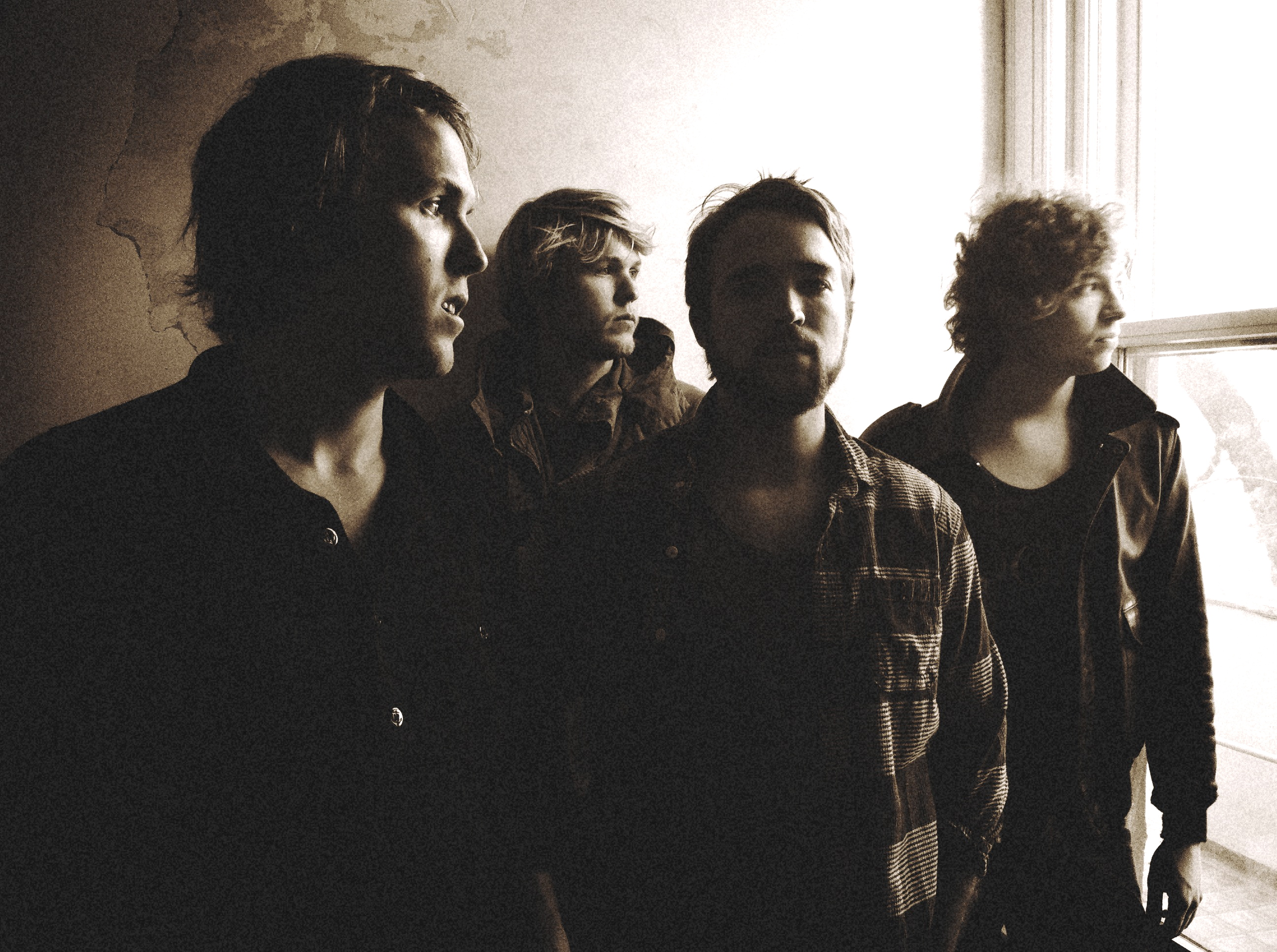 Filligar press photo from 2011.